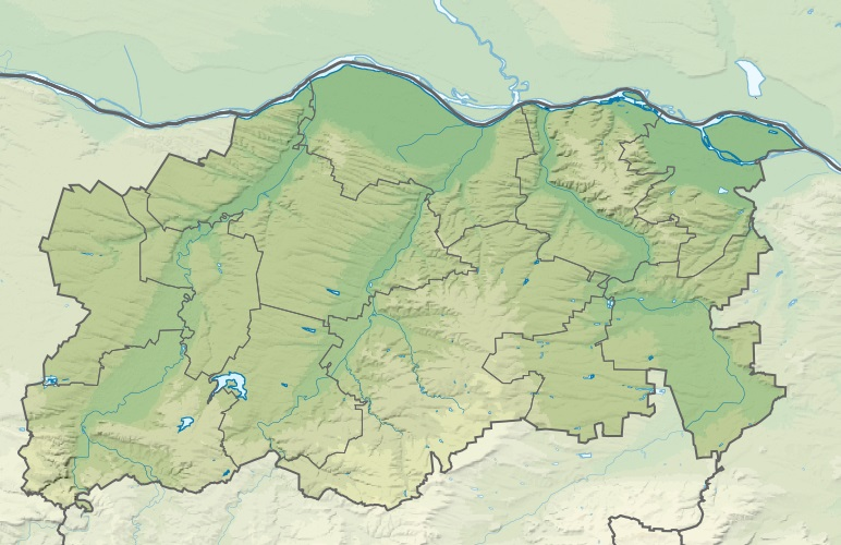 Relief Location map Pleven Province, Bulgaria. Geographic limits of the map